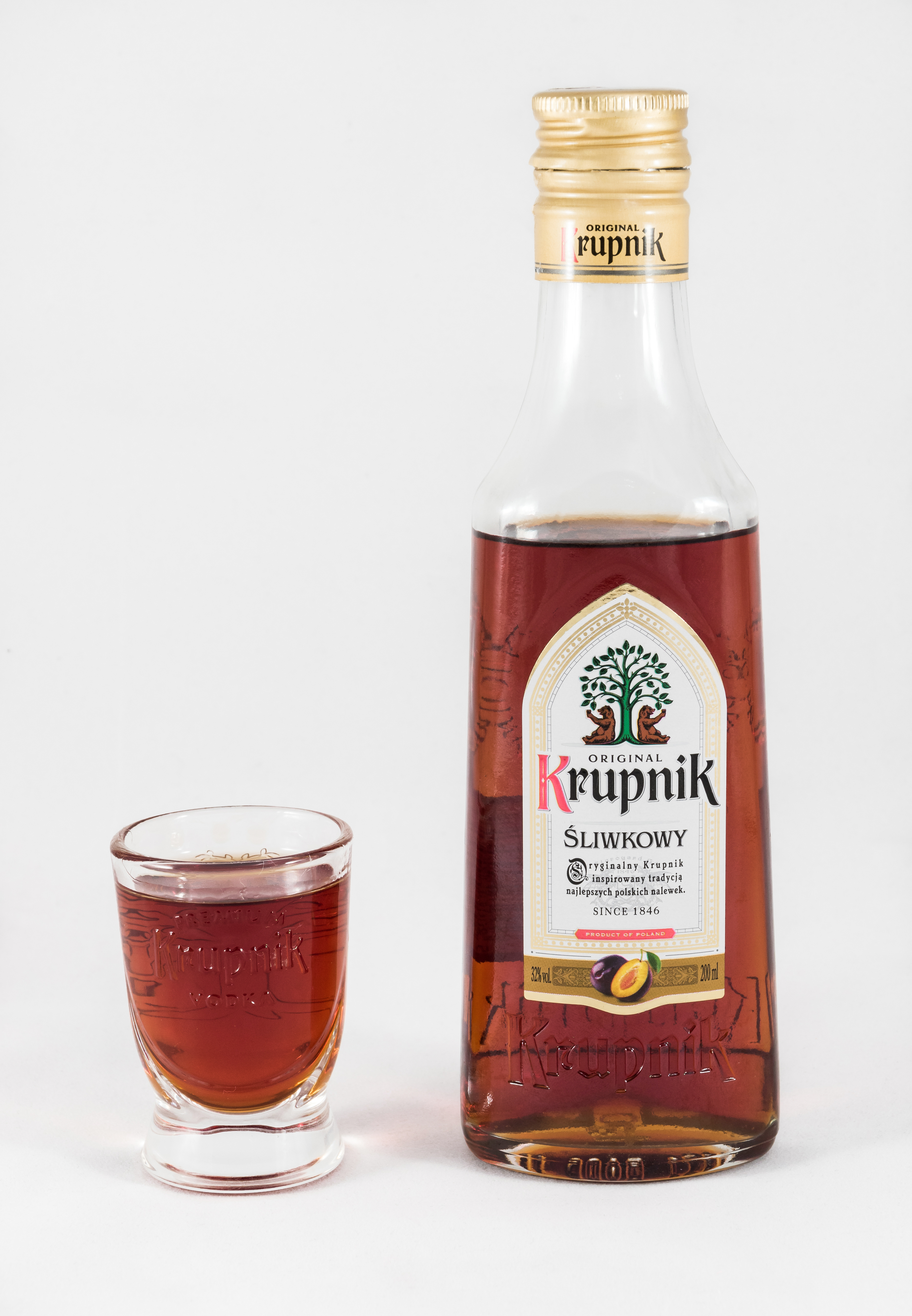 Krupnik plum liqueur